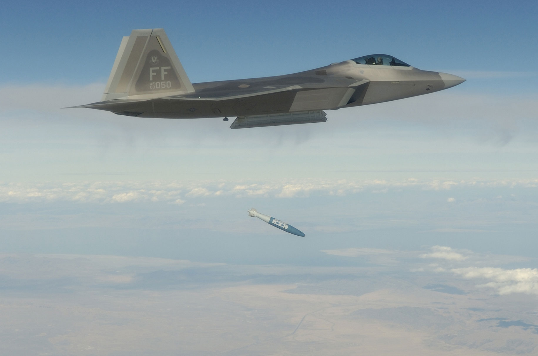 U.S. Air Force Lt. Col. Wade Tolliver drops a 1,000-pound Joint Direct Attack Munition GBU-32 from an F/A-22 Raptor aircraft over the Utah Test and Training Range at Hill Air Force Base, Utah, during a weapons evaluation mission Oct. 20, 2005. Tolliver is an F/A-22 Raptor pilot and director of operations for the 27th Fighter Squadron, Langley Air Force Base, Va.